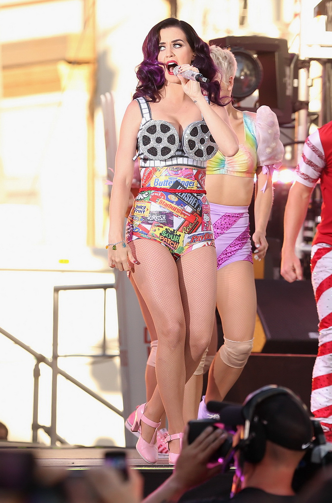 Katy Perry at the premier for her movie Katy Perry: Part of Me